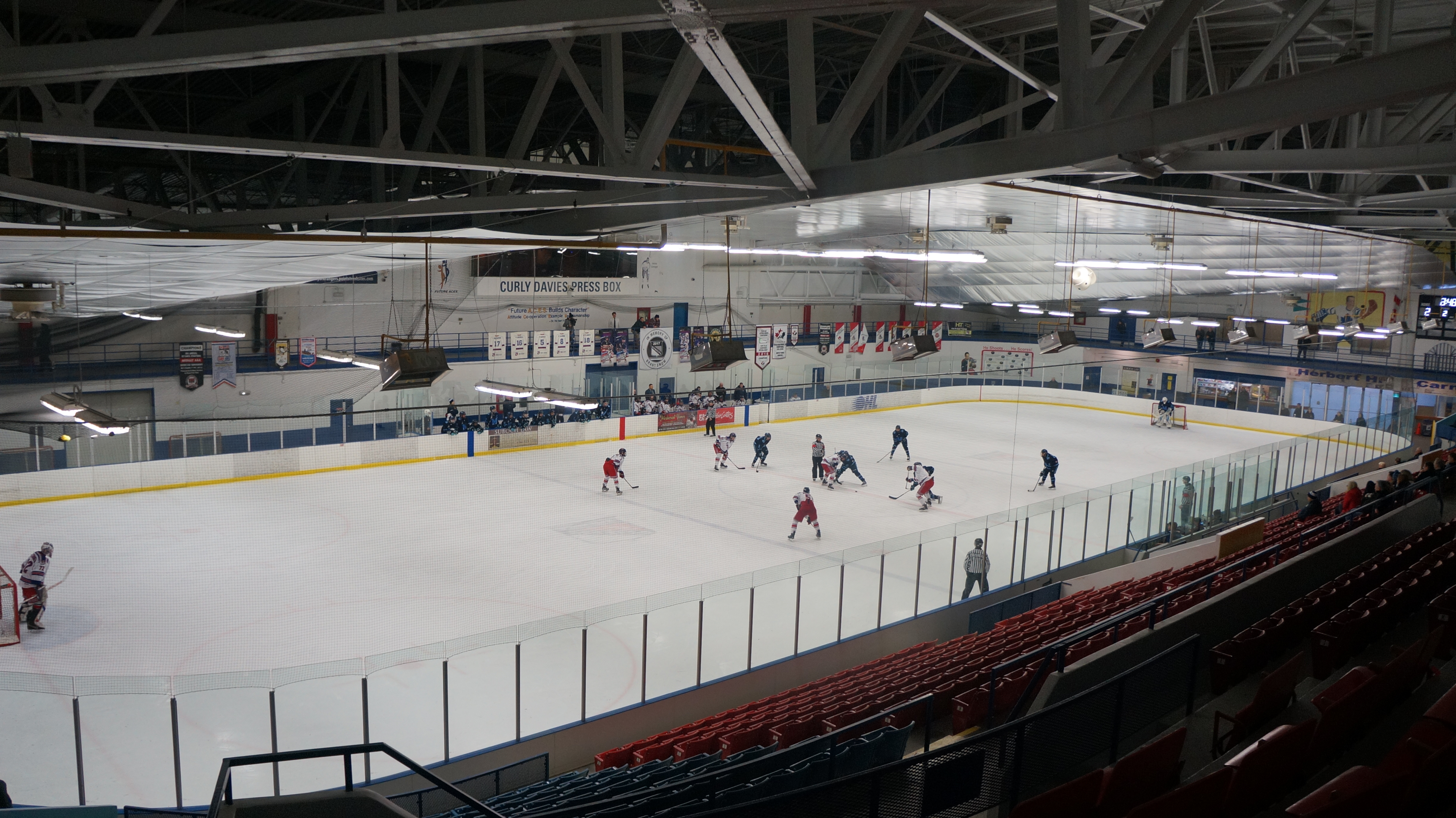 The North York Rangers hosting the St. Michael's Buzzers at the Herbert H. Carnegie Centennial Centre in North York, Ontario on February 3, 2019.